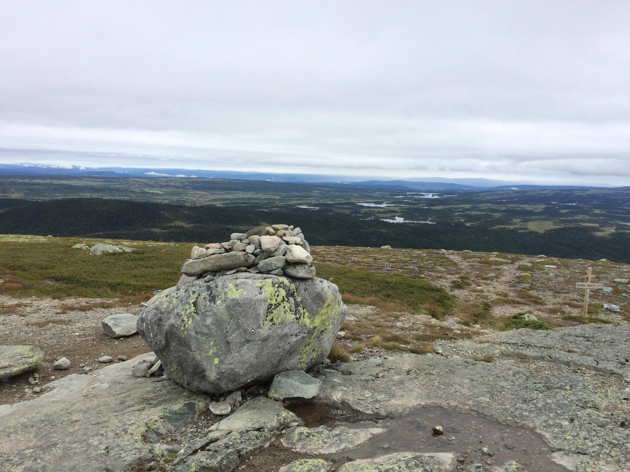 A view of Langsua National Park, Oppland, Norway from the peak Ormtjernkampen (1128 masl)